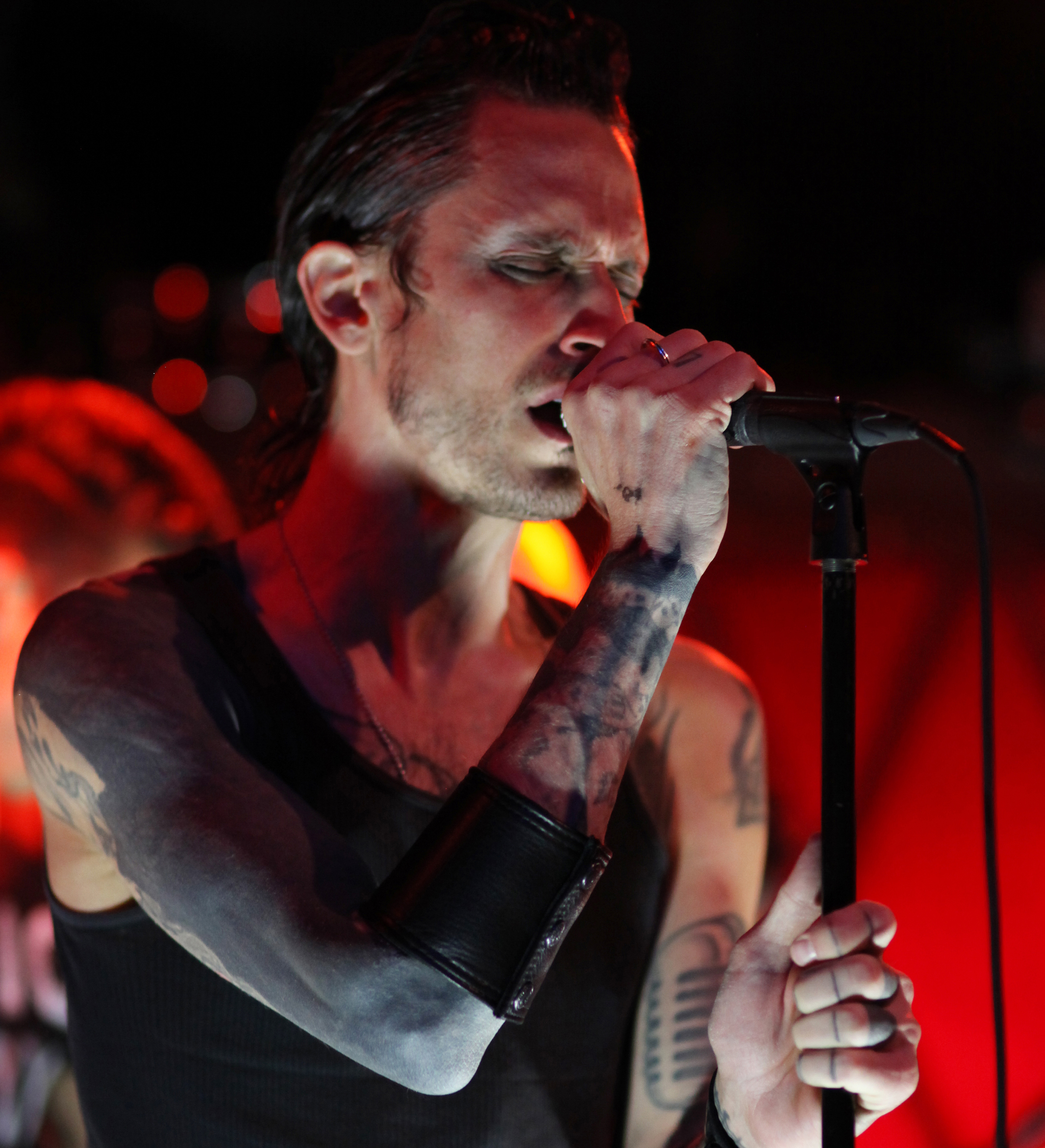 Jimmy Gnecco at Rockwood Music Hall in November 2014.